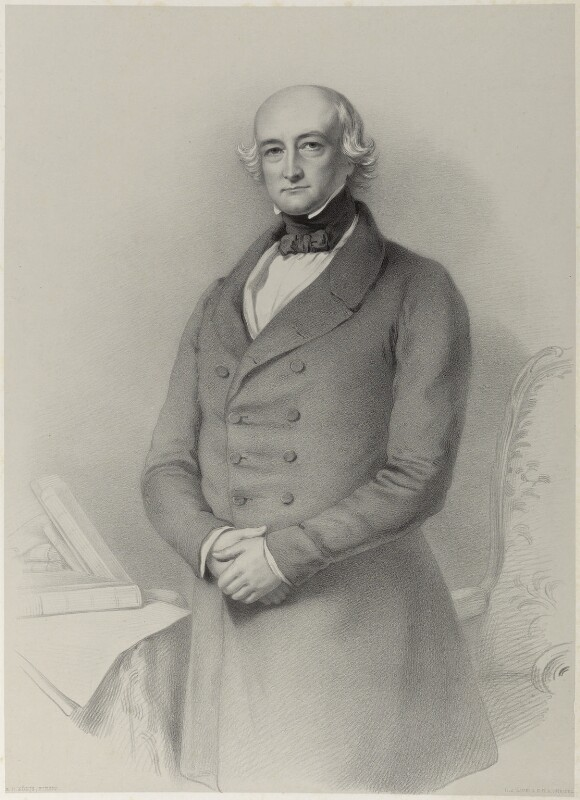 Portrait of Sir James Hogg, 1st Baronet (1790–1876), Irish businessman, lawyer and politician.